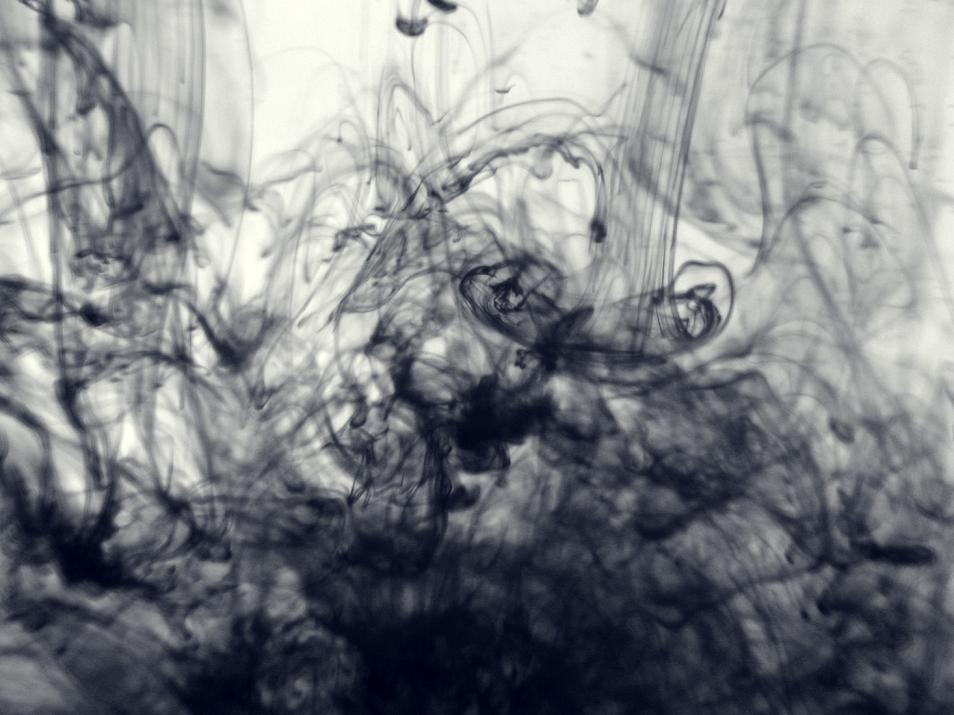 The diffusion process